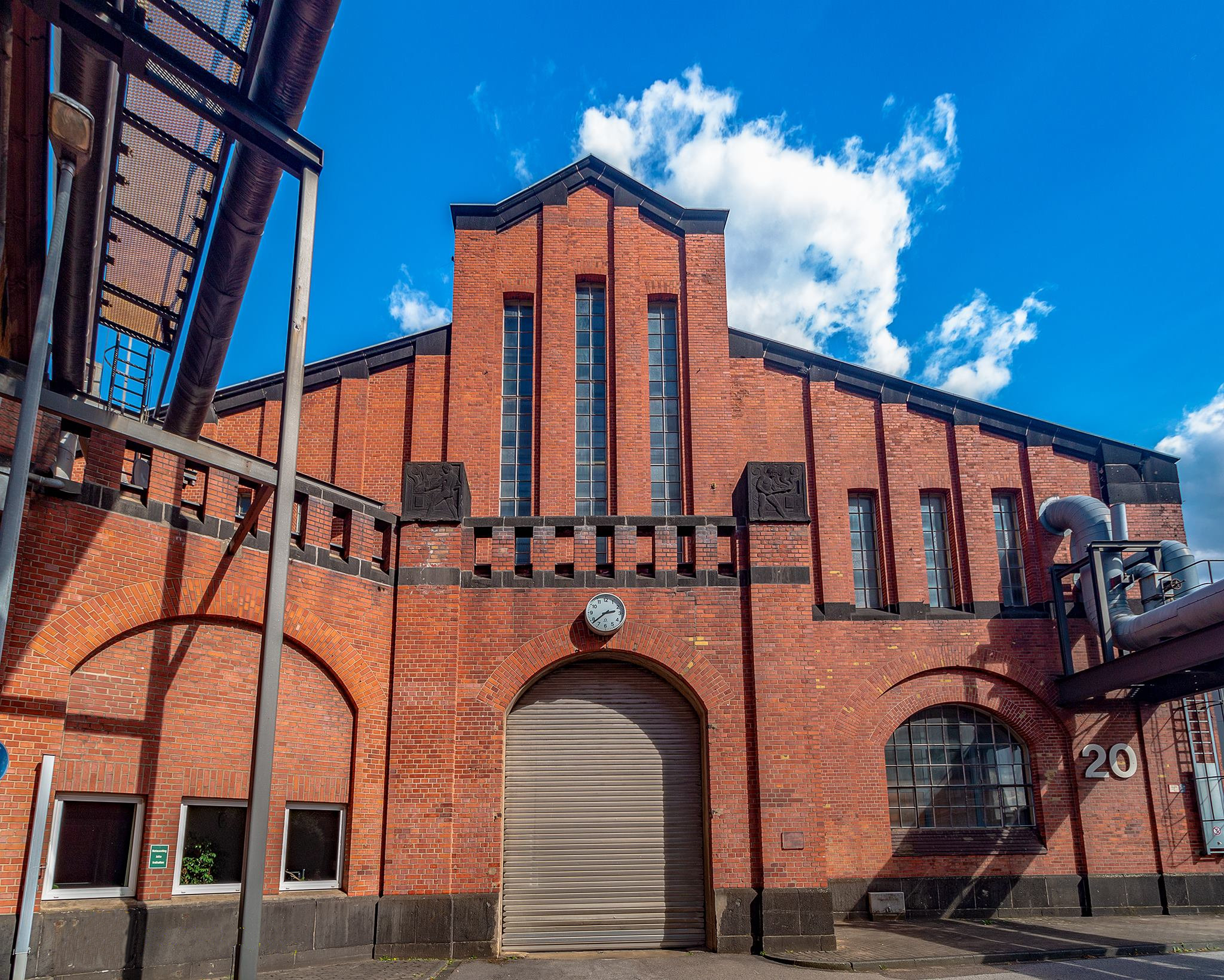 Building 20 of the Heizwerk (Heat-only boiler station) Süd (South) of Cologne